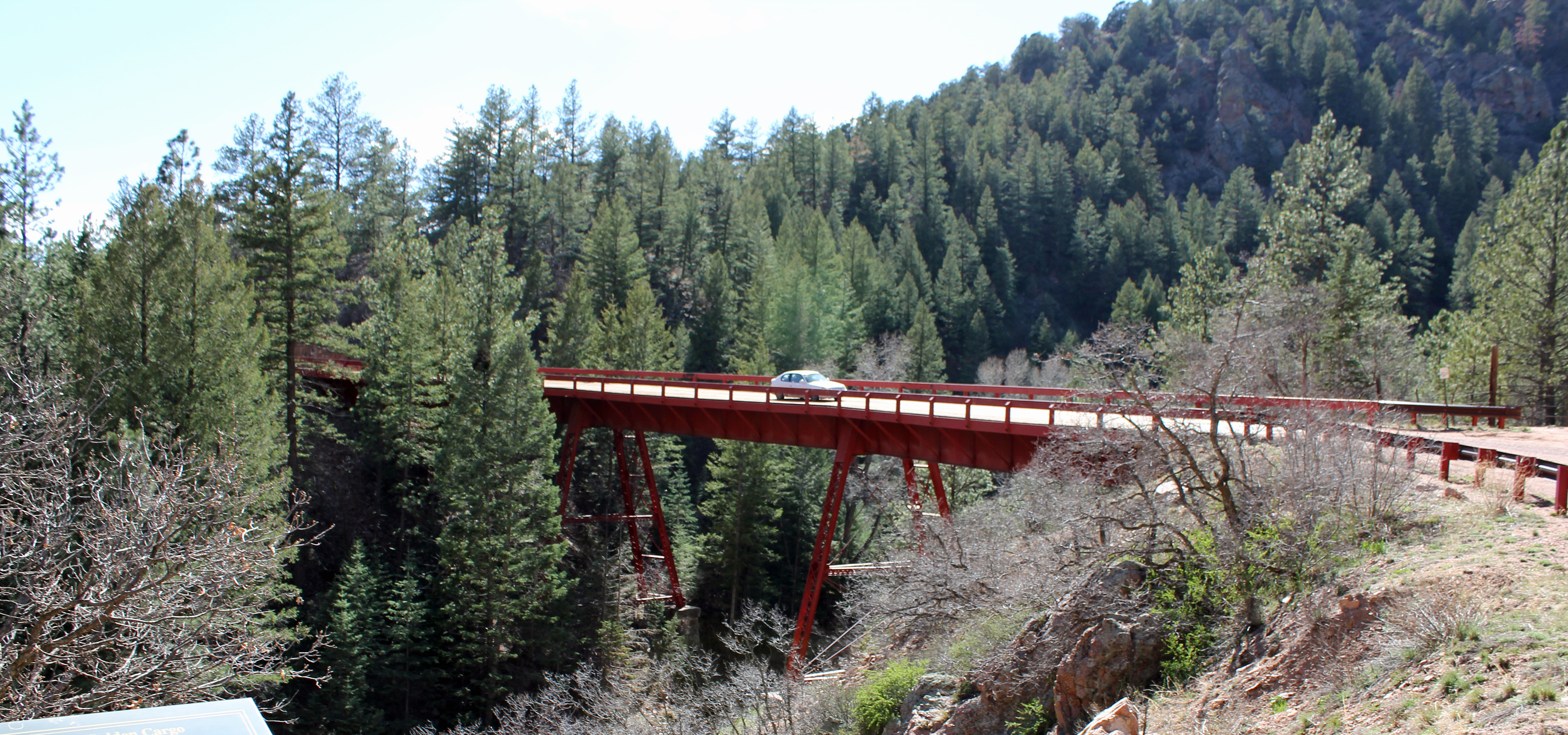 Bridge No. 10 / Adelaide Bridge, located on Phantom Canyon Road (Fremont County Road 67) in Fremont County, Colorado. Originally a railroad trestle, the bridge is now a highway bridge.